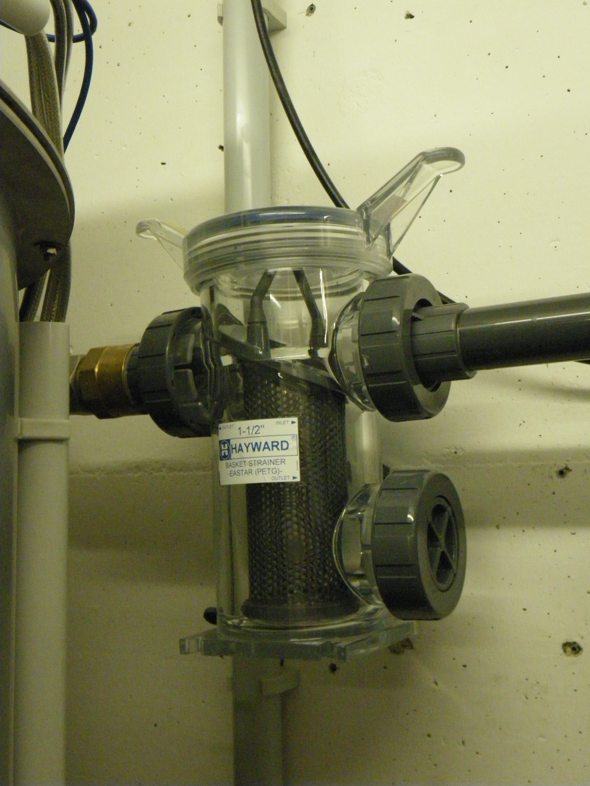 To improving the urine treatment system we have a new basket strainer by HAYWARD (model: EASTAR (PETG)) which is situated between the wire mesh and the inlet pipe. The picture shows the basket strainer before the urine is flowing through the pipe line. Photo: Amel Saadoun, August 2011